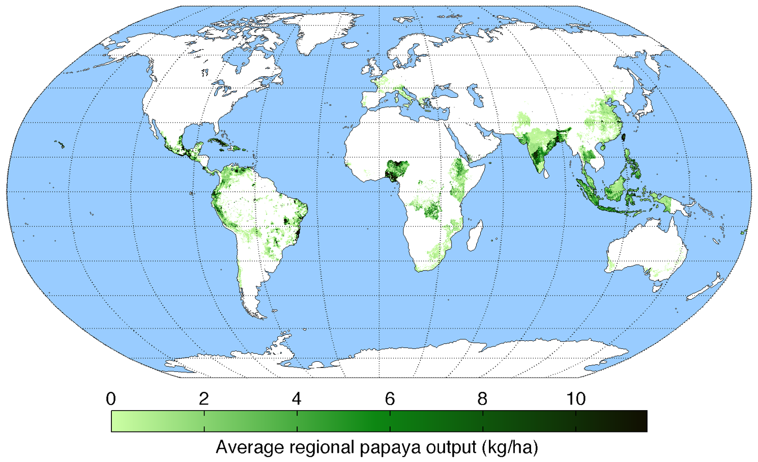 Map of papaya production (average percentage of land used for its production times average yield in each grid cell) across the world compiled by the University of Minnesota Institute on the Environment with data from: Monfreda, C., N. Ramankutty, and J.A. Foley. 2008. Farming the planet: 2. Geographic distribution of crop areas, yields, physiological types, and net primary production in the year 2000. Global Biogeochemical Cycles 22: GB1022